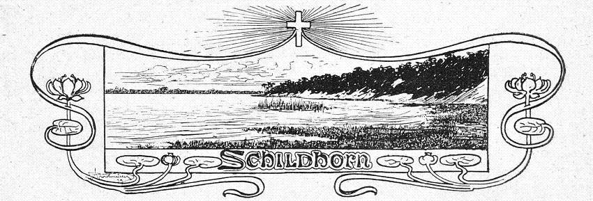 Book-illustration Schildhorn, created in 1900. Schildhorn (german for: shieldhorn) is a headland in the river Havel, situated in the protected area Grunewald in the homonymous quarter Grunewald of Berlins borough Charlottenburg-Wilmersdorf, Germany.